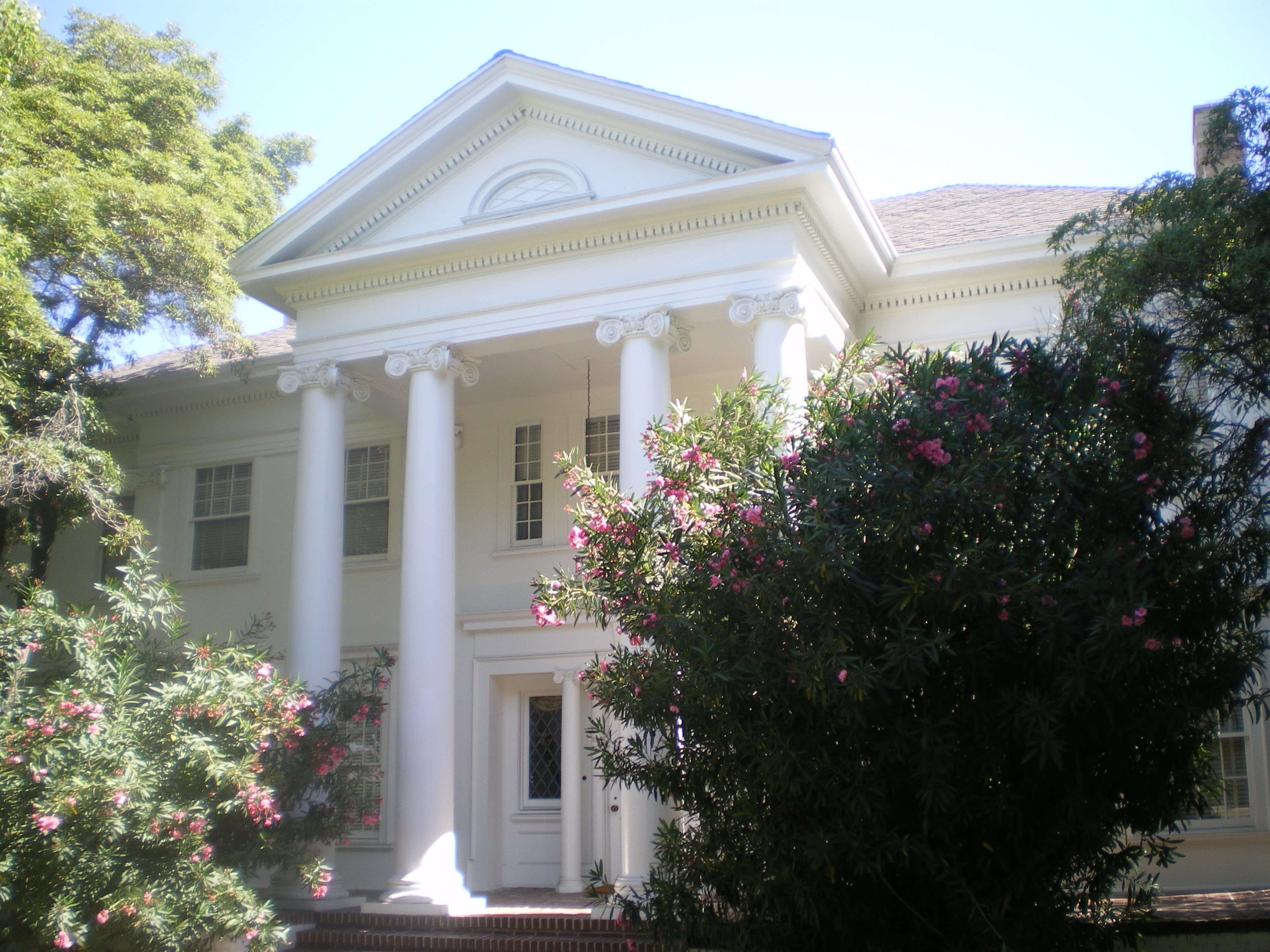 Stearns-Dockweiler Residence, 27 St. James Park, in the St. James Park Historic District of West Adams, Los Angeles, California.